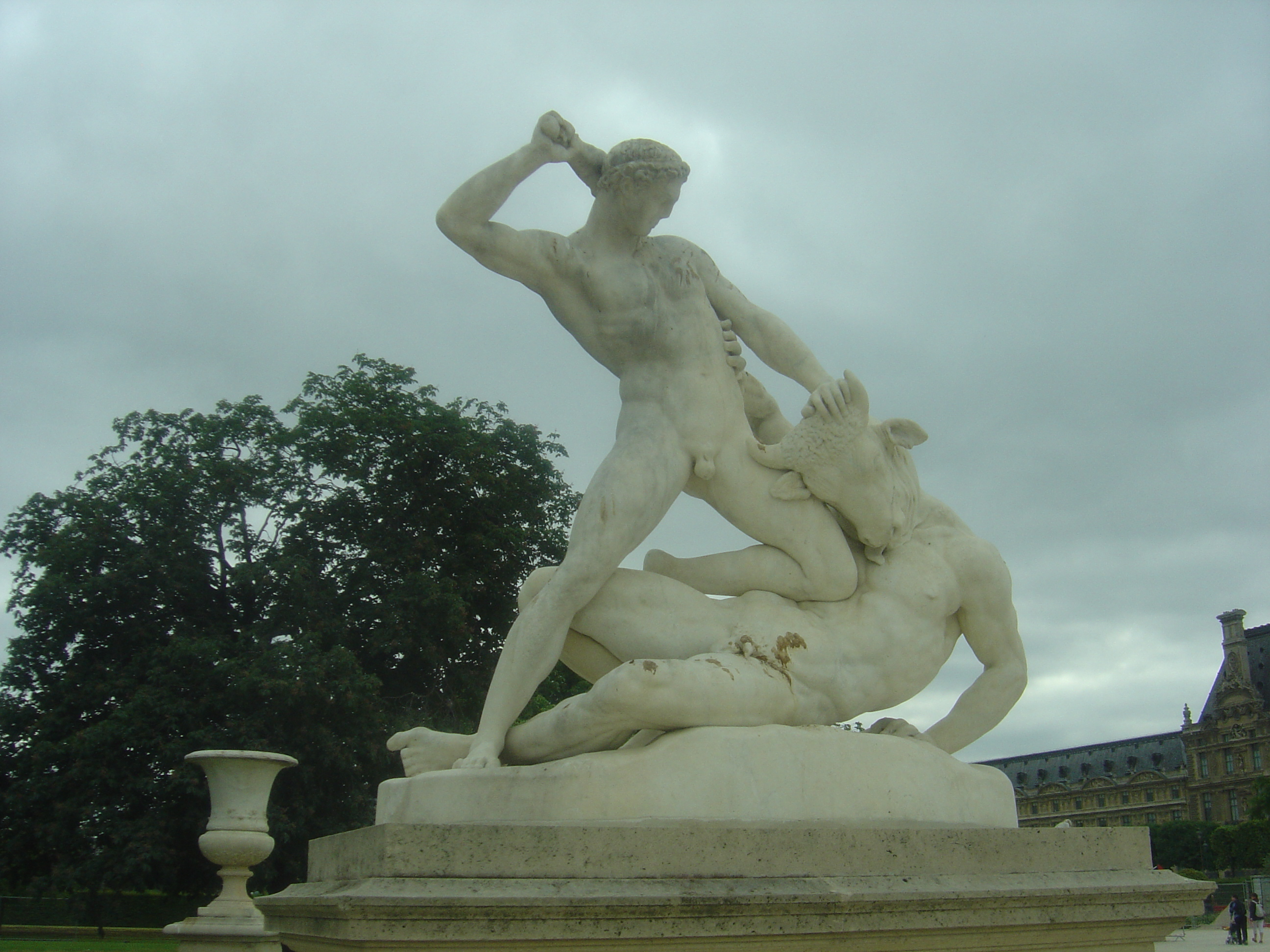 Thésée combattant le Minotaure by Jules Ramey